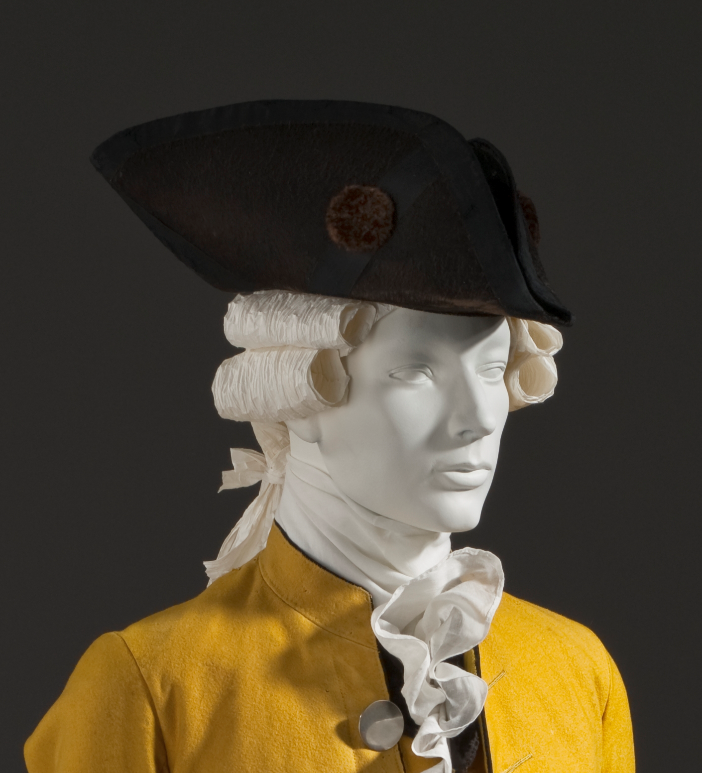 Tricorne hat, Europe or America, beaver fur, c. 1780. Man's 3-piece suit (coat, waistcoat, and breeches), Spain, c. 1785. Mustard yellow wool plain weave, full finish, trimmed with silk cut velvet on twill foundation.